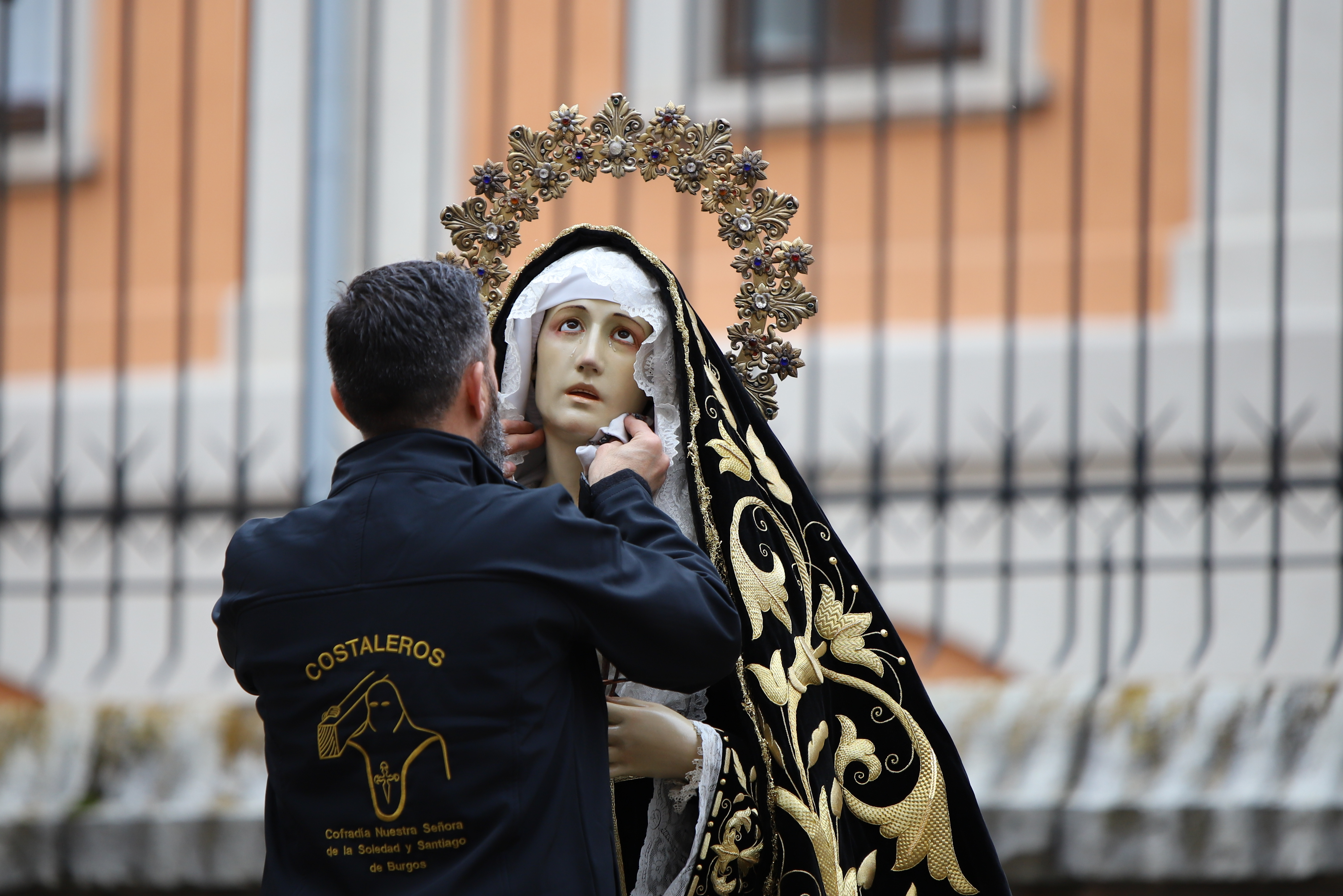 Semana Santa 2019 en Burgos. Preparacíon de Señora de la Soledad y Santiago de la misma Cofradía.